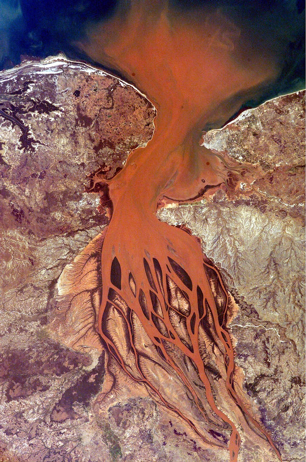 Betsiboka River entering the Bombetoka Bay creating a delta. NASA photo.